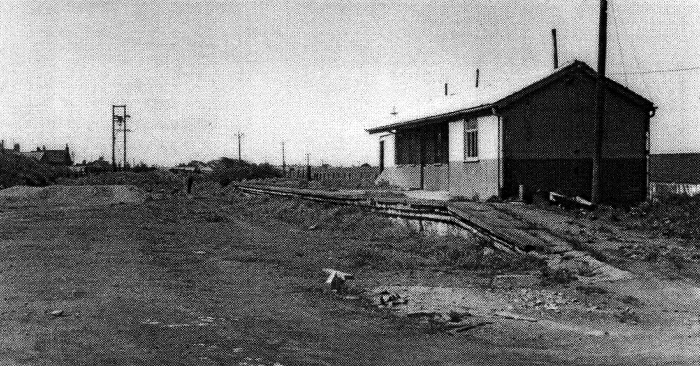 Seahouses station, remains 1957Terminus of former independent North Sunderland Light Railway from Chathill, closed 29/10/51.